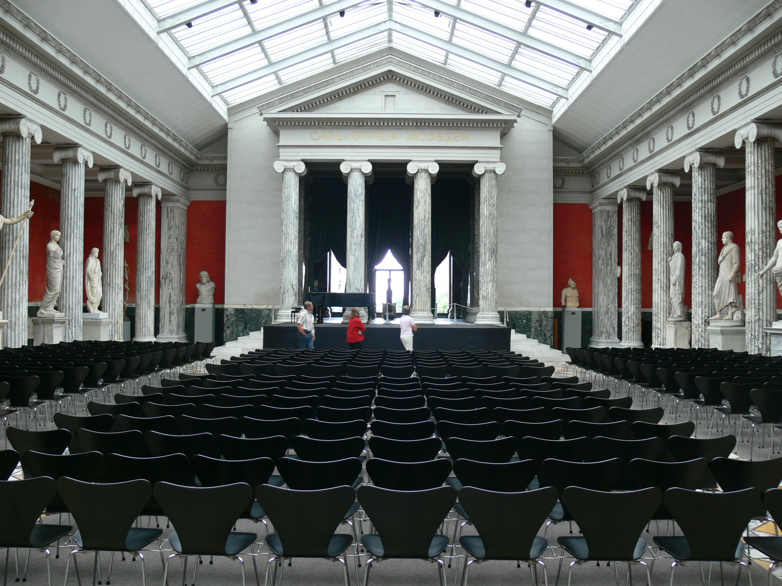 Ny Carlsberg Glyptothek, Copenhagen. Auditorium. The chairs are No. 7 chairs designed by Arne Jacobsen.